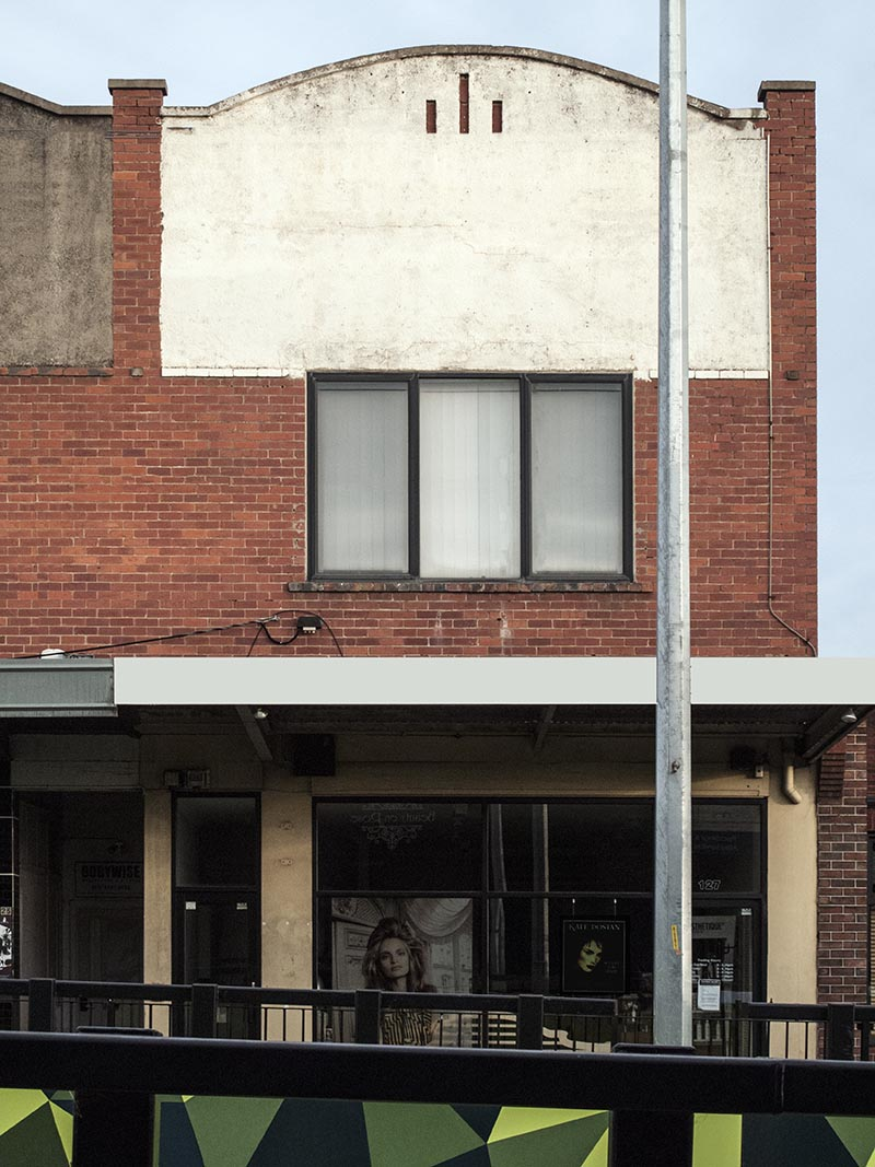 Facade of the former Artists Space Gallery site, Essendon, in 2020